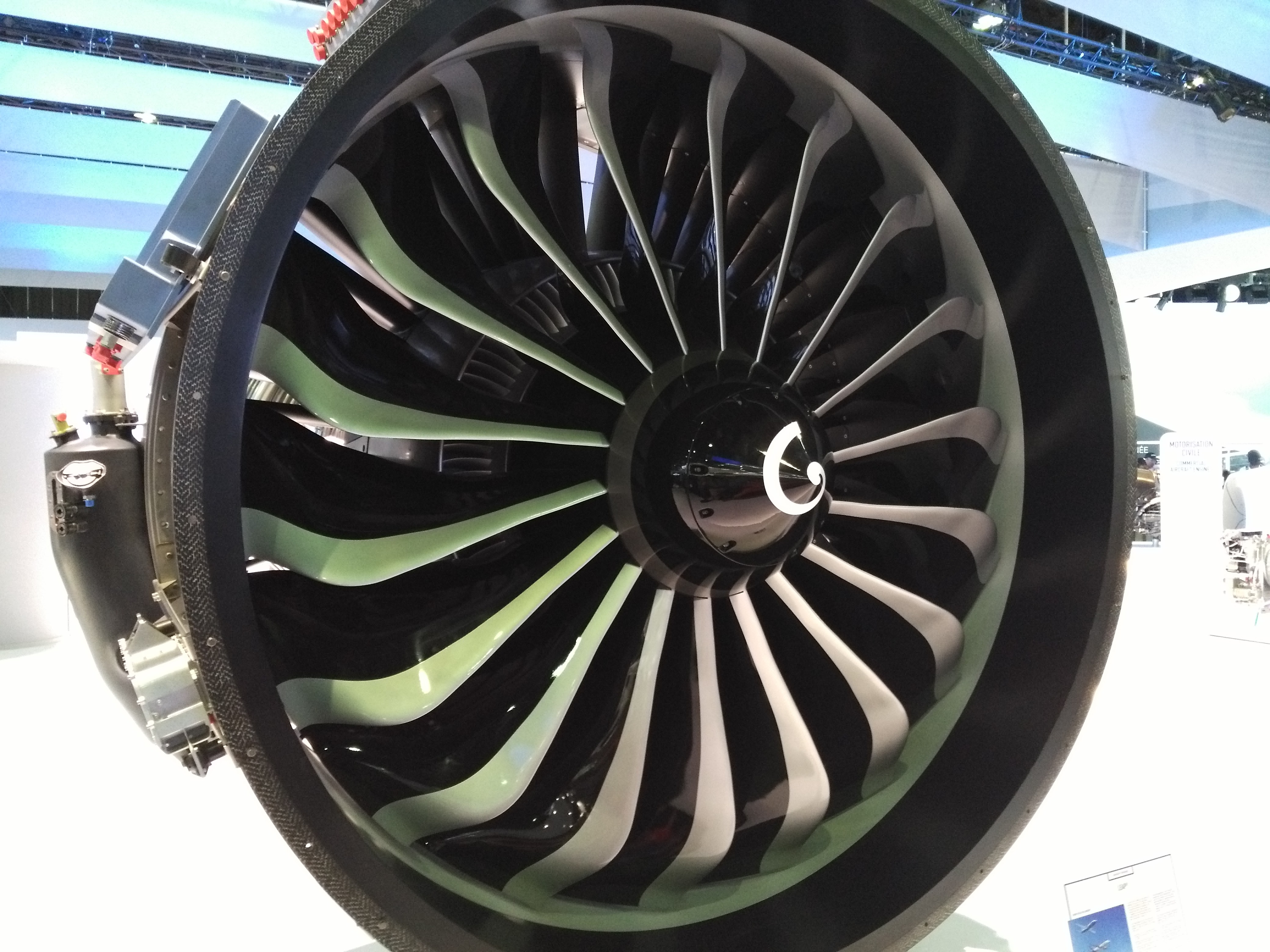 LEAP fan on Safran stand at Paris Air Show 2017